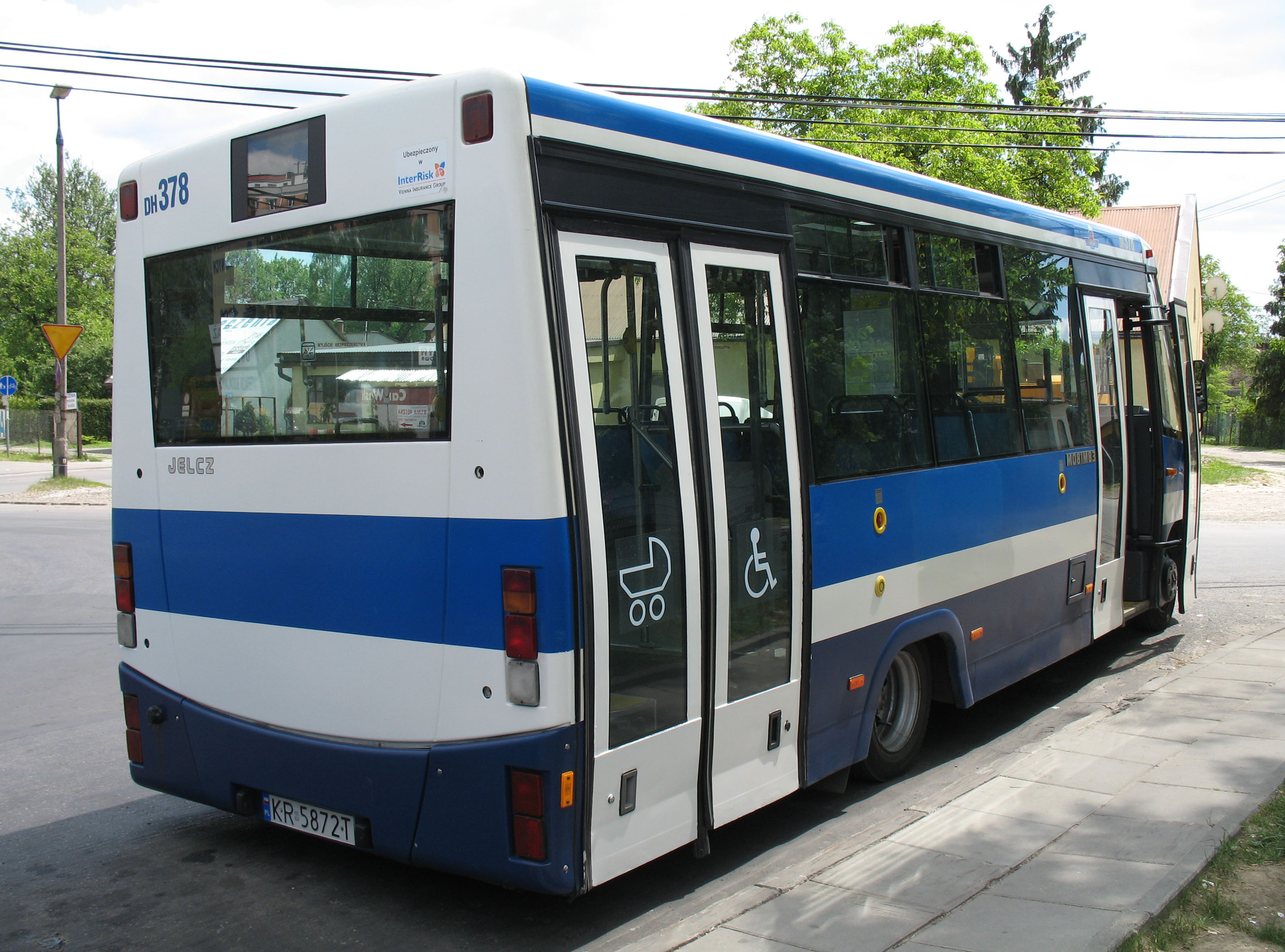 Jelcz M081MB/3 Vero bus (#DH378, reg. KR 5872T) in Kraków, Poland. Built 2005, MPK Kraków operator.